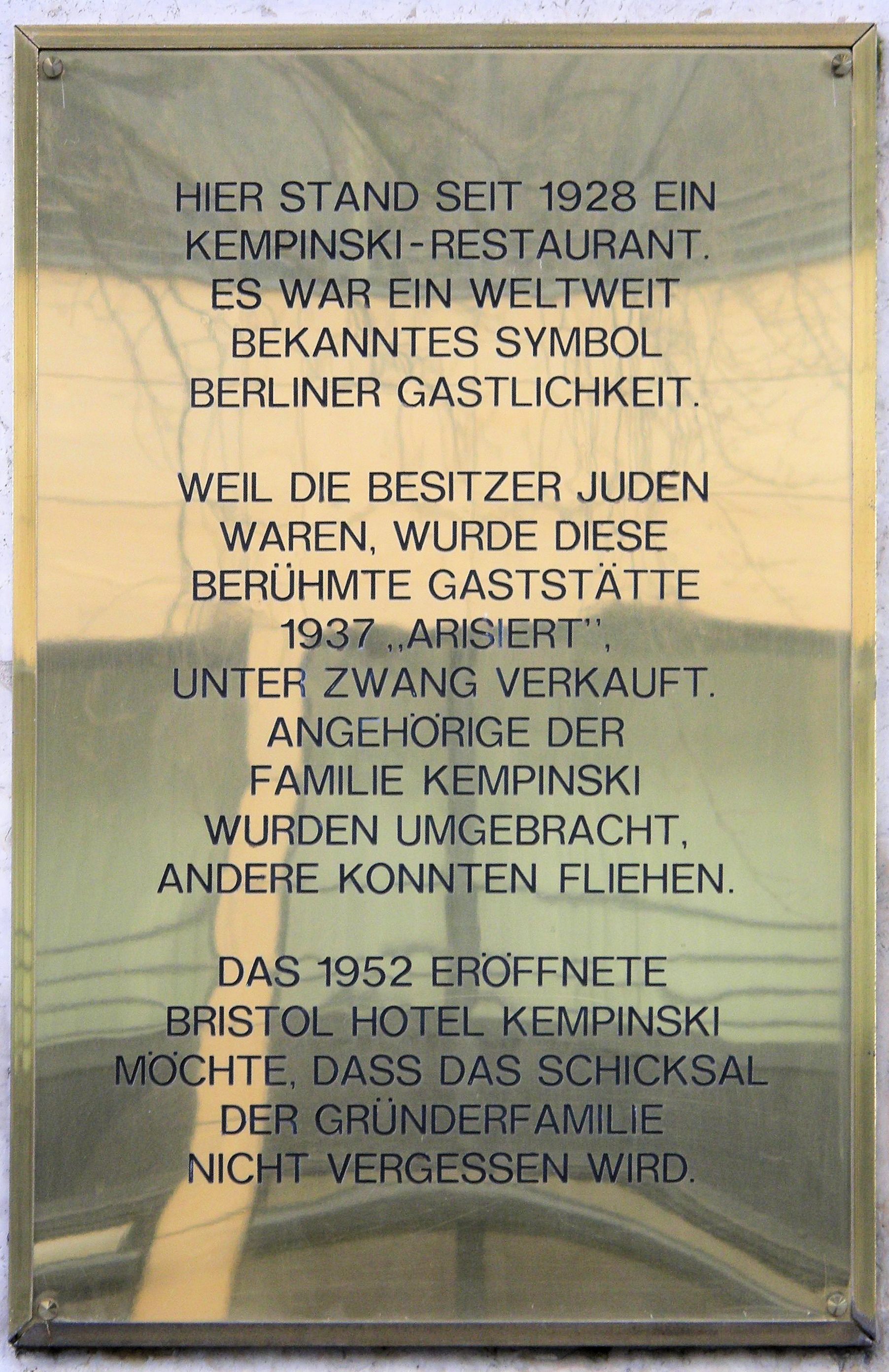 Memorial plaque, Hotel Kempinski, Fasanenstraße 21, Berlin-Charlottenburg, Germany Koordinate:52°30′11.4″N 13°19′38.9″E / 52.503167°N 13.327472°E